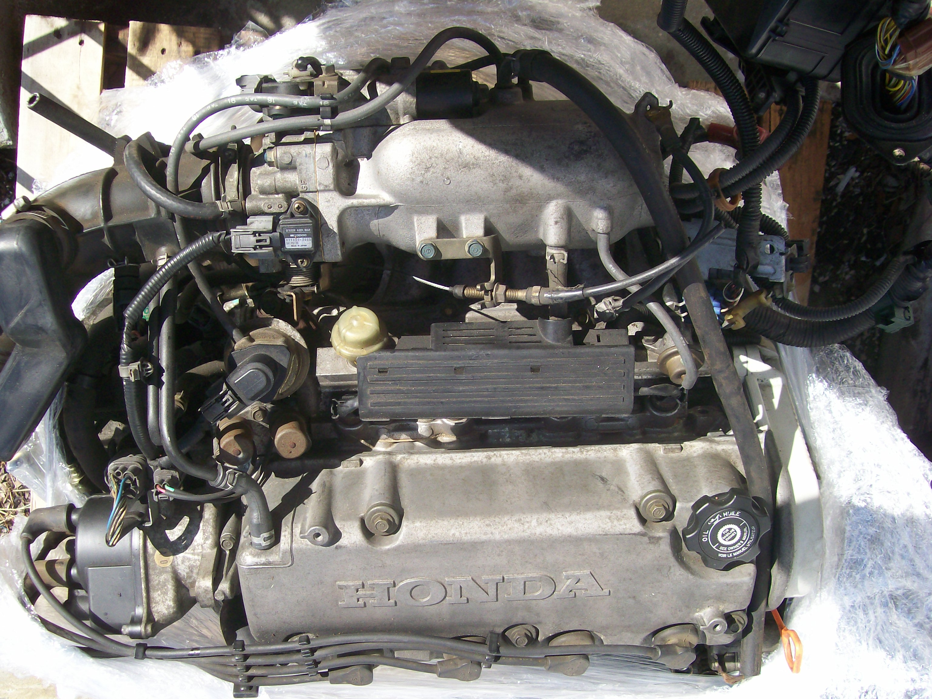 D15B 3-Stage-VTEC, also D15Z7 Found in 1991 Honda CRX,America Model